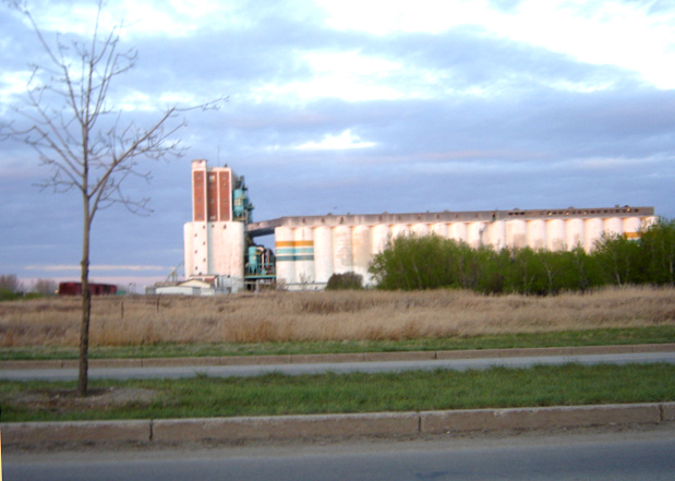 Ag Pro Terminal, Canadian Government Elevators, Sask Wheat Pool SWP, Saskatoon AgPro Industrial, Saskatoon